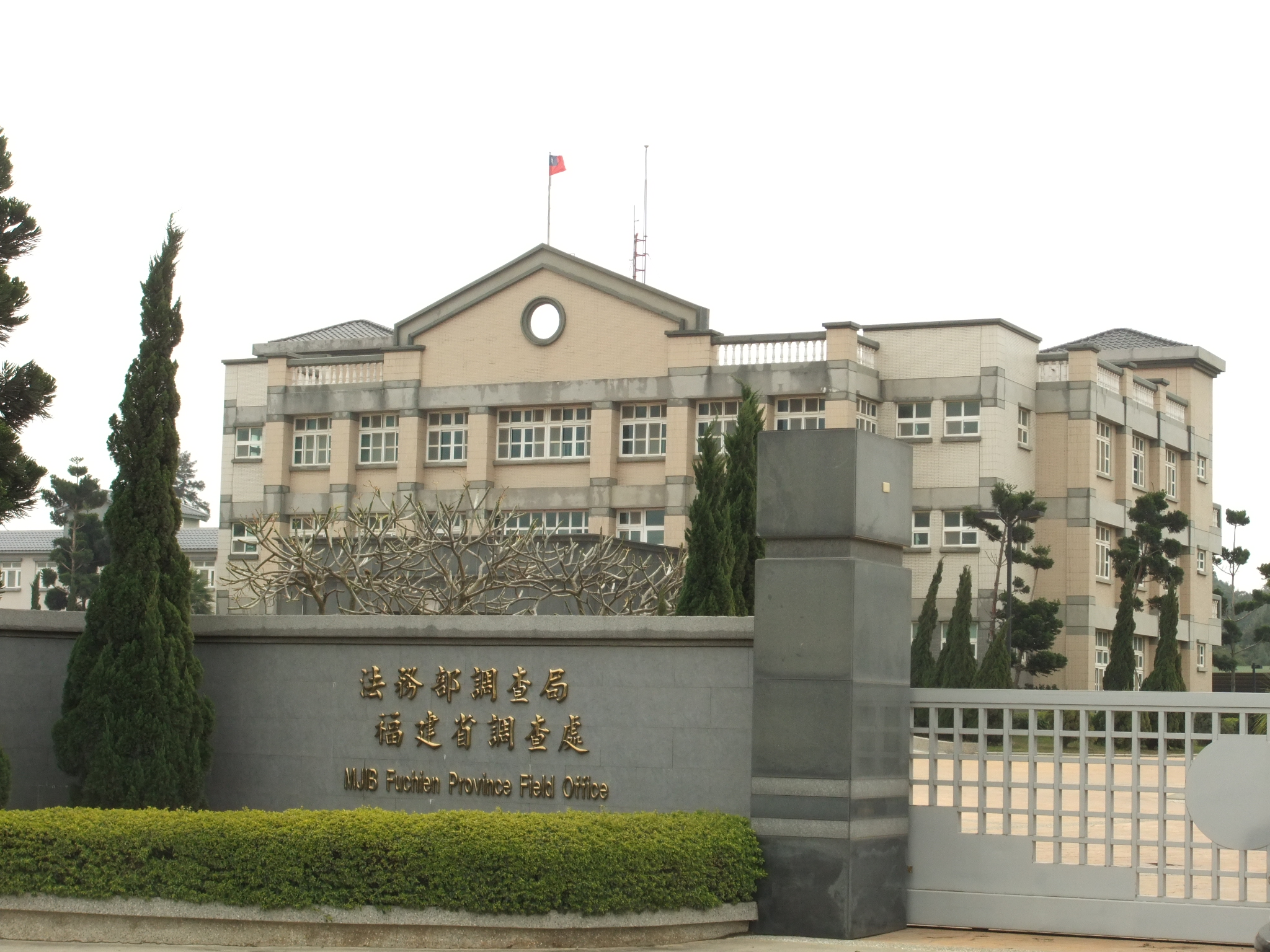 Fuchien Province Field Office, The Bureau of Investigation, Ministry of Justice.